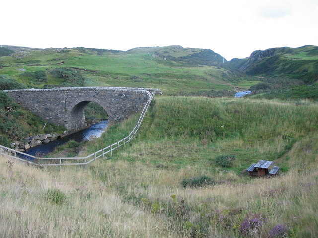 Old bridge over Armadale Burn. A view looking south towards the old bridge over the Armadale Burn, from the picnic area off the A836.